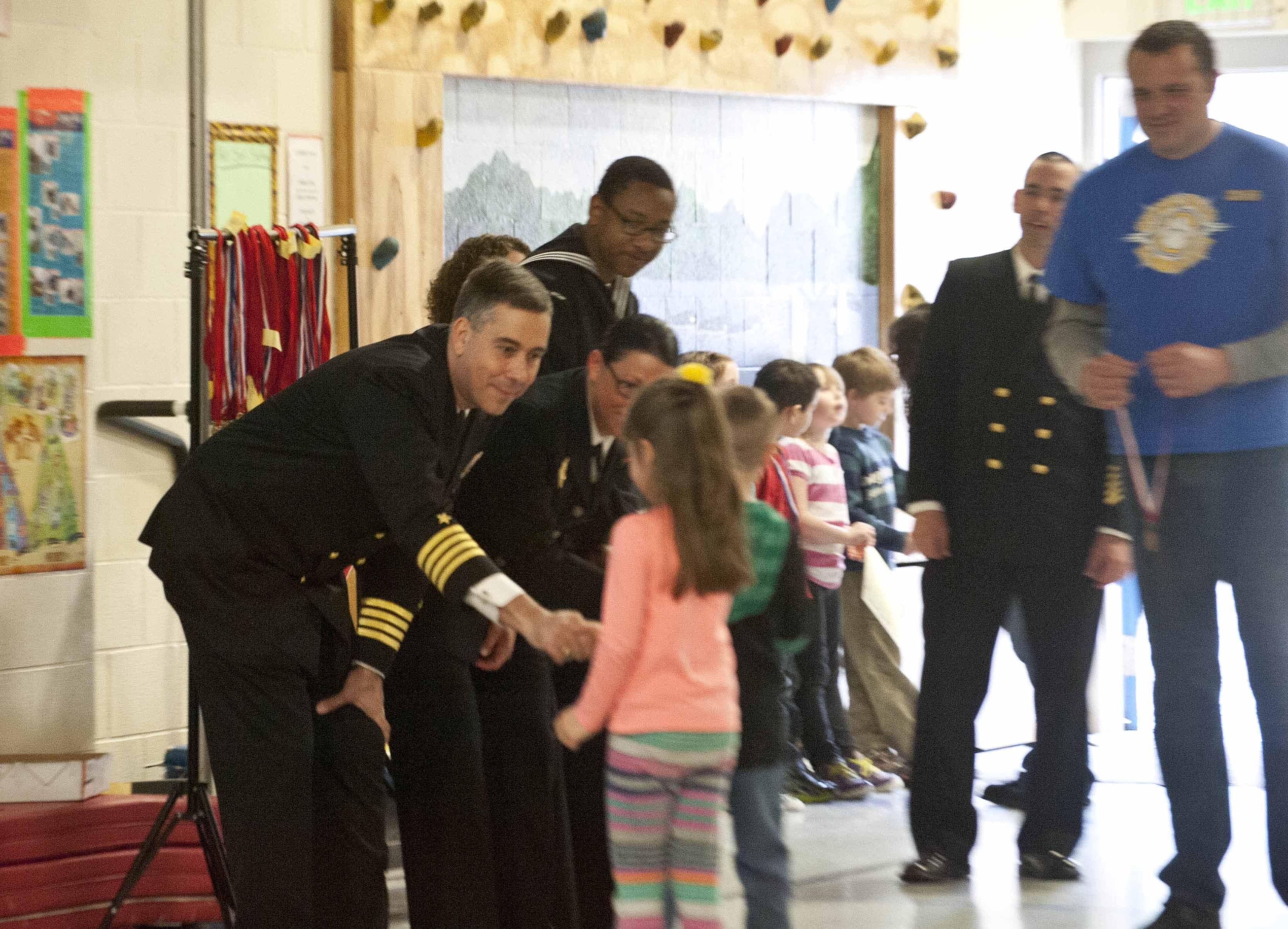 U.S. Navy Capt. Thomas Zwolfer, left, the commanding officer of Naval Base Kitsap, congratulates students of the Cougar Valley Elementary School in Silverdale, Wash., March 28, 2014, for their achievements in the school's Reading Olympics. The program recognized and encouraged students to establish a solid foundation for their education through reading. (U.S. Navy photo by Mass Communication Specialist 2nd Class Cory Asato/Released)